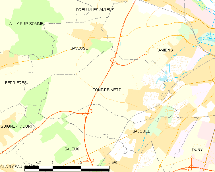 Map of French municipality Pont-de-Metz